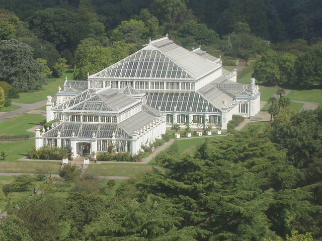 Kew Gardens Temperate House from the Pagoda. The Temperate House built from 1859 was designed by Decimus Burton. It was the largest glasshouse in the world, and is still the largest Victorian one. See RGB Kew website for more information. For a wider view from the Pagoda including the Temperate House, see 226885.